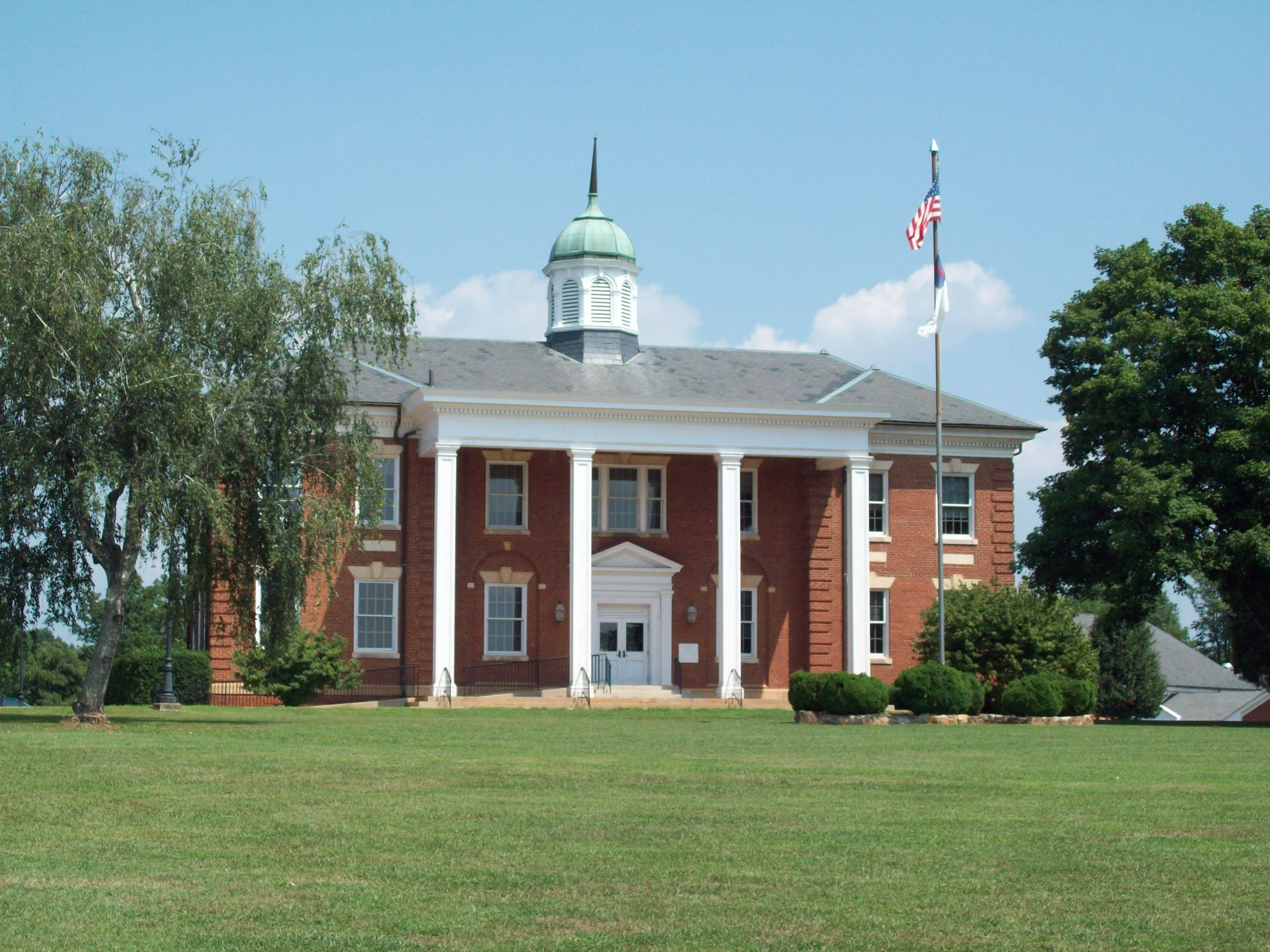 Presbyterian Orphans Home - Administration Buidling, August 2010